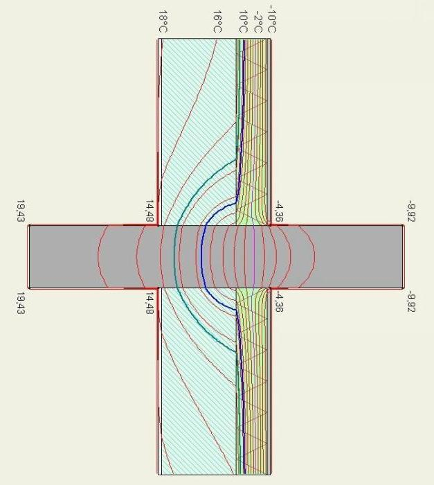 Construction thermal bridge with isotherms.